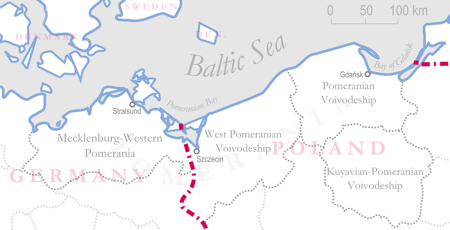 Administrative divisions including the name Pomerania today - Western part belonging to modern Germany, eastern part belonging to modern Poland.